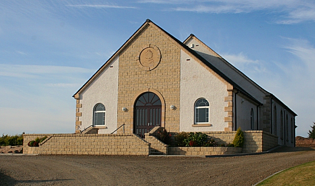 Rehoboth Free Presbyterian Church According to the notice at the access road, this spanking new kirk is in the Diocese of Ulster!